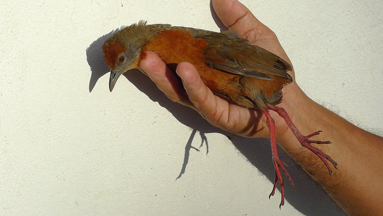 Anurolimnas viridis (Müller, 1776), Rallidae, Atlantic forest, northern littoral of Bahia, Brazil